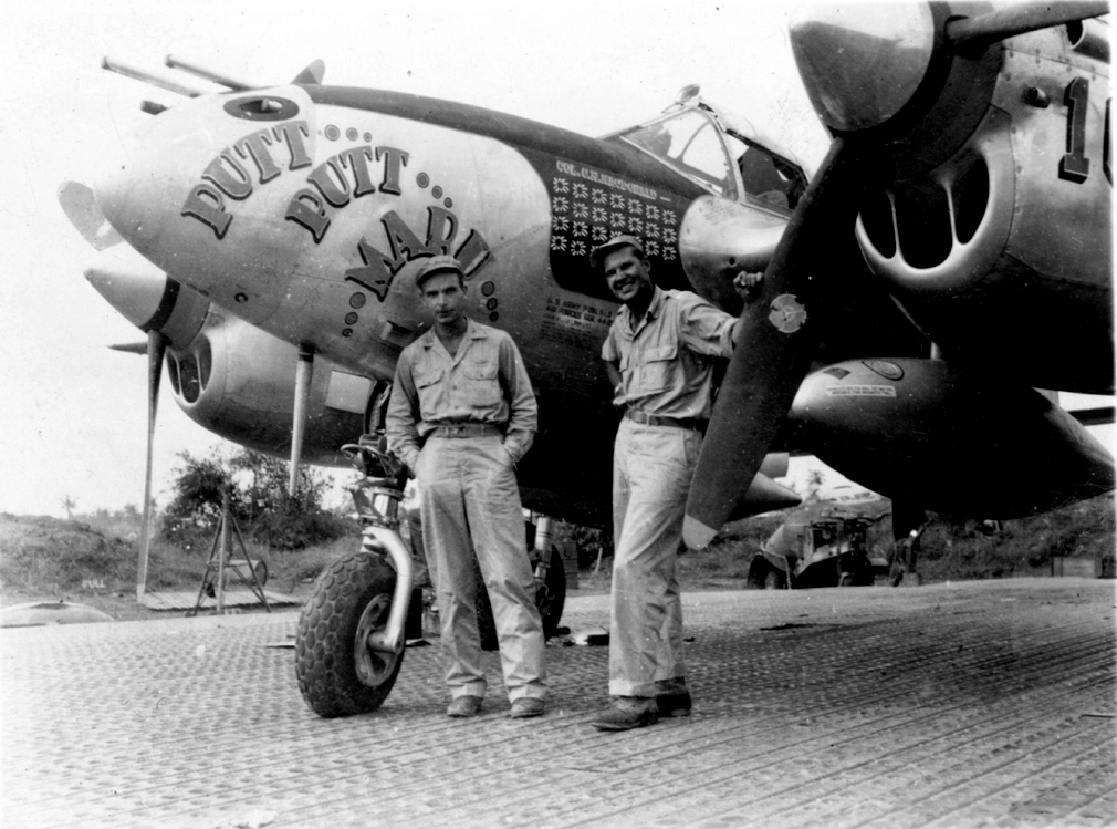 Colonel Charles H MacDonald and Al Nelson in the Pacific with MacDonald's P-38J Lightning "Putt Putt Maru". (Courtesy: USAF).